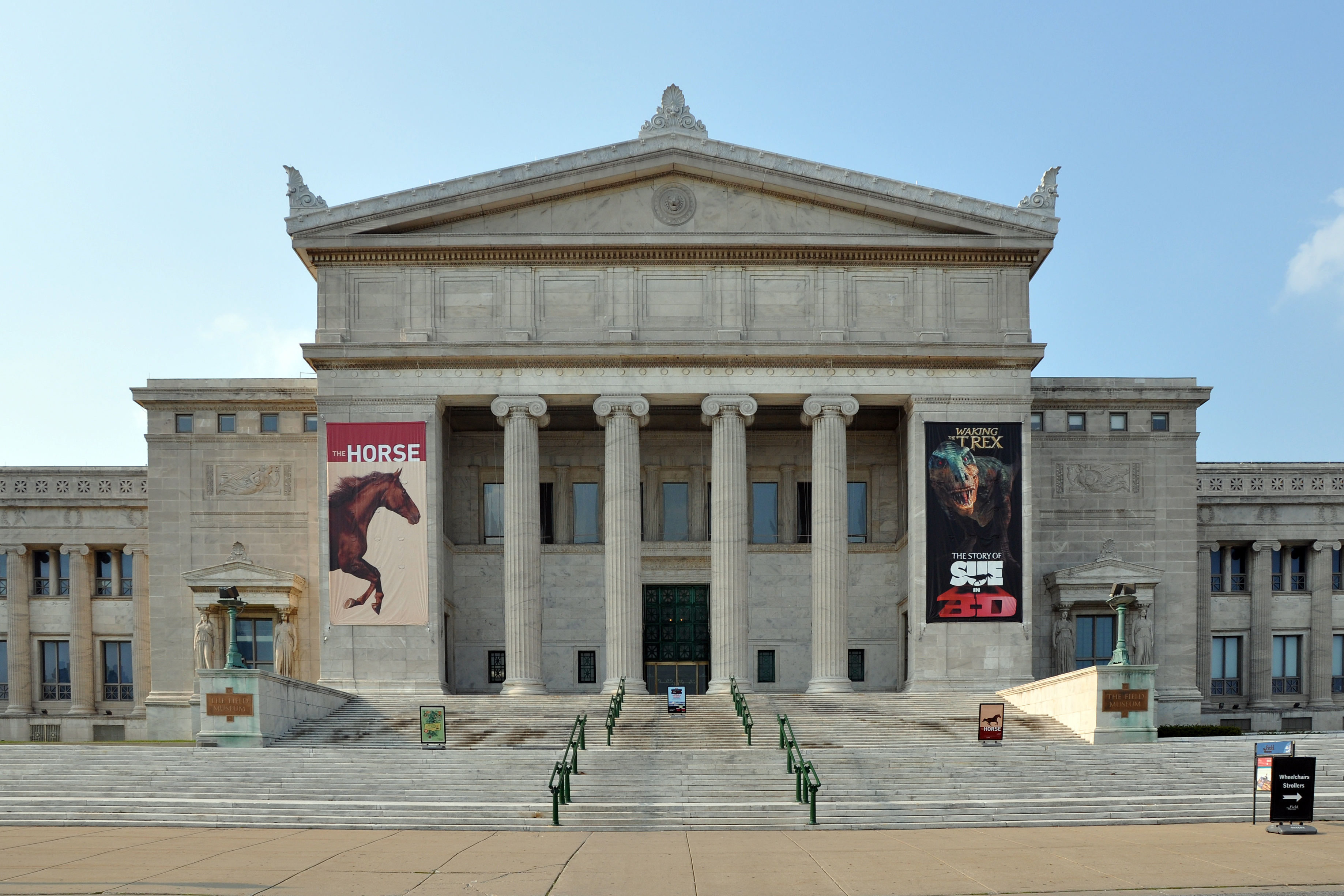 Field Museum of Natural History in Chicago, Illinois, USA.